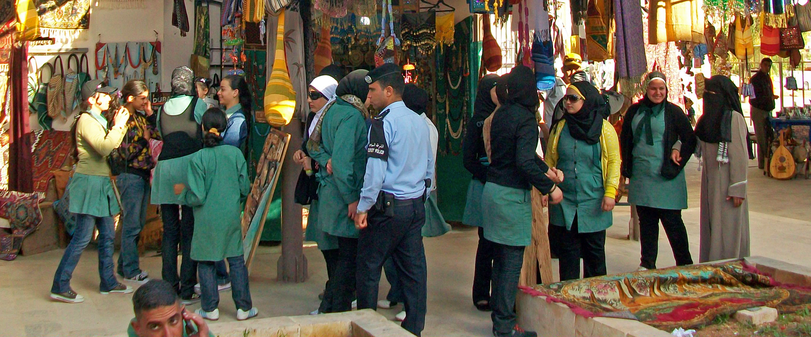 Female students, wearing school uniforms, in the souvenir market on a field trip to the Roman ruins Jerash, Jordan